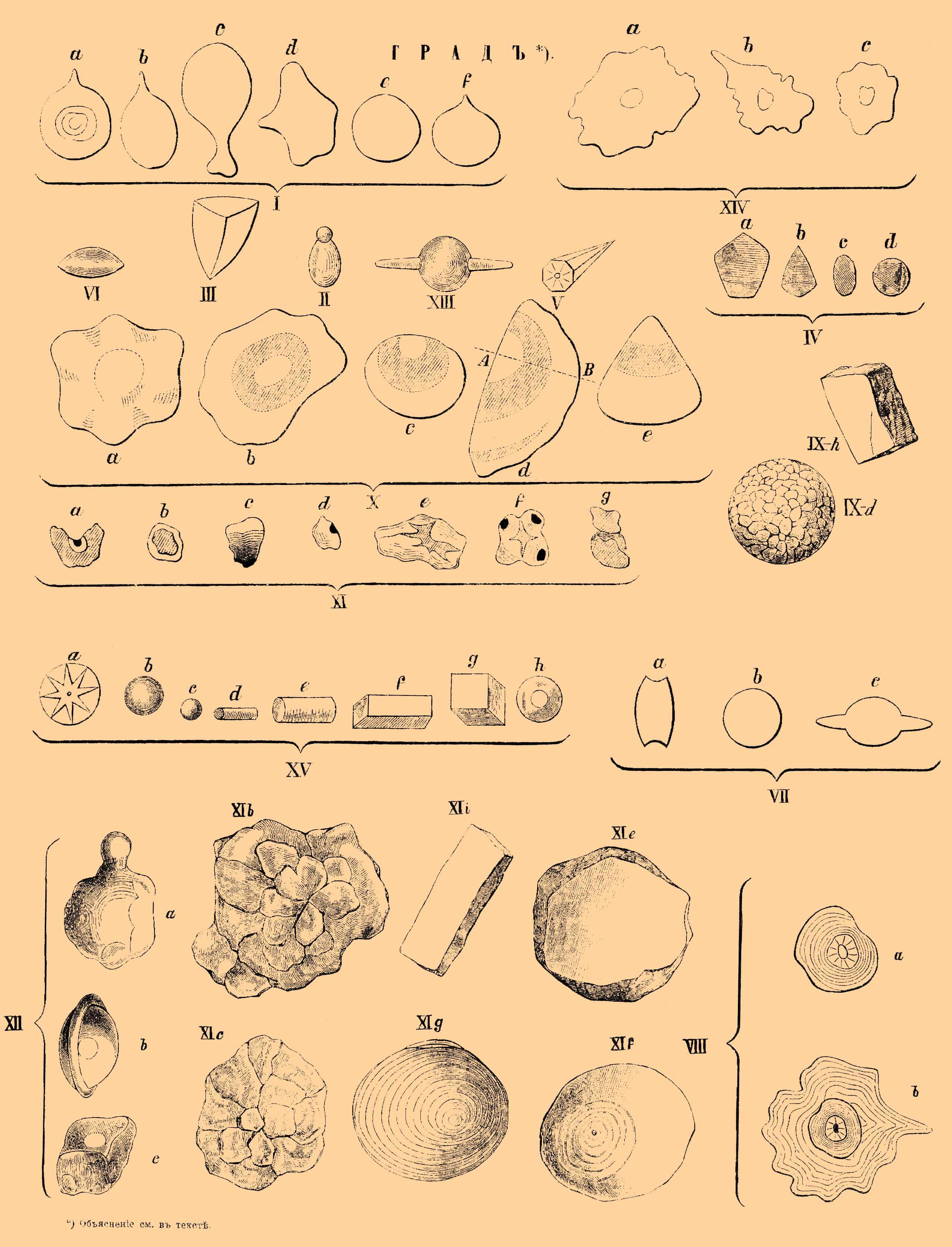 Illustration from Brockhaus and Efron Encyclopedic Dictionary (1890—1907)